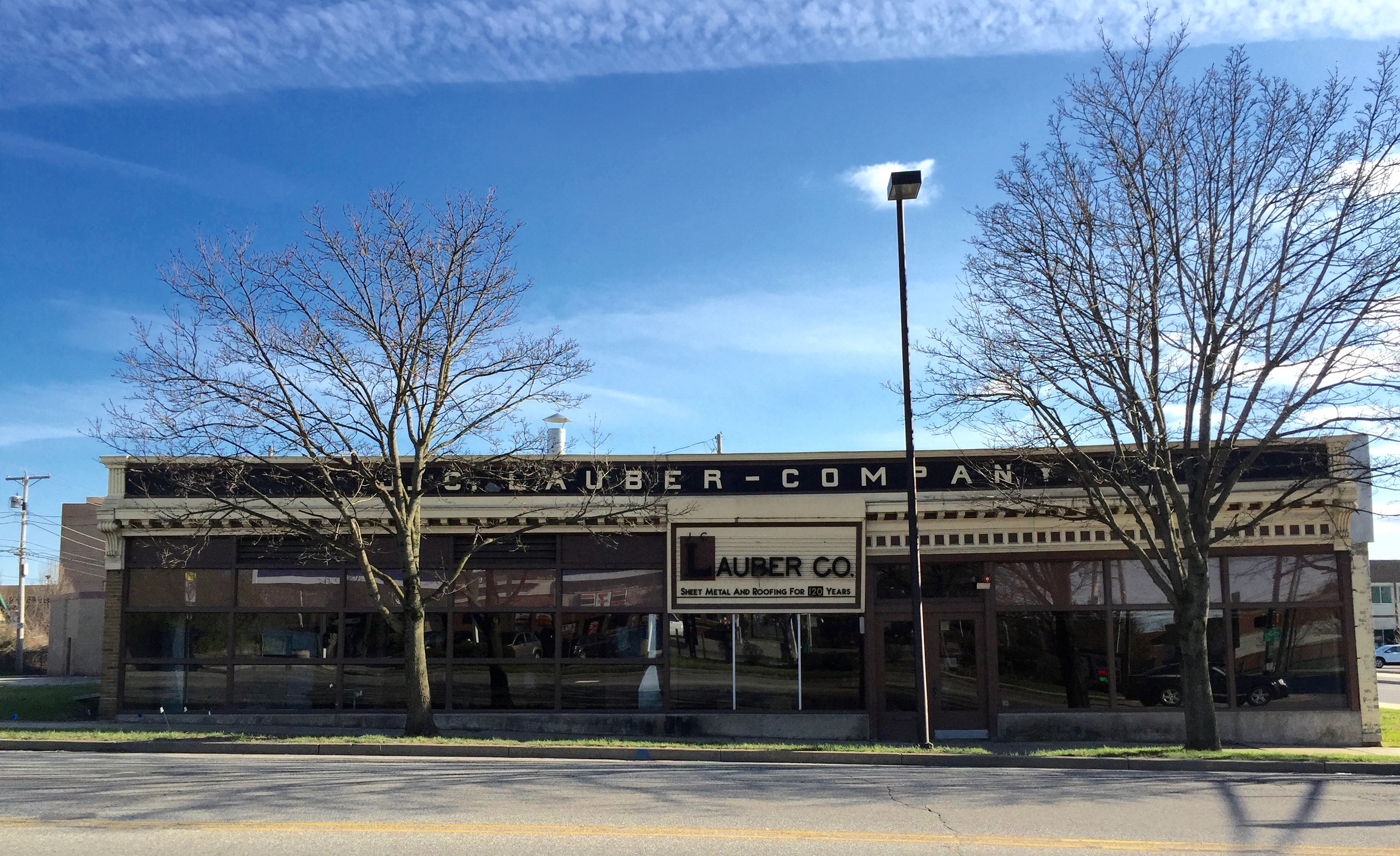 Photograph of the front of the J.C. Lauber Building in South Bend, Indiana, taken across LaSalle Street.